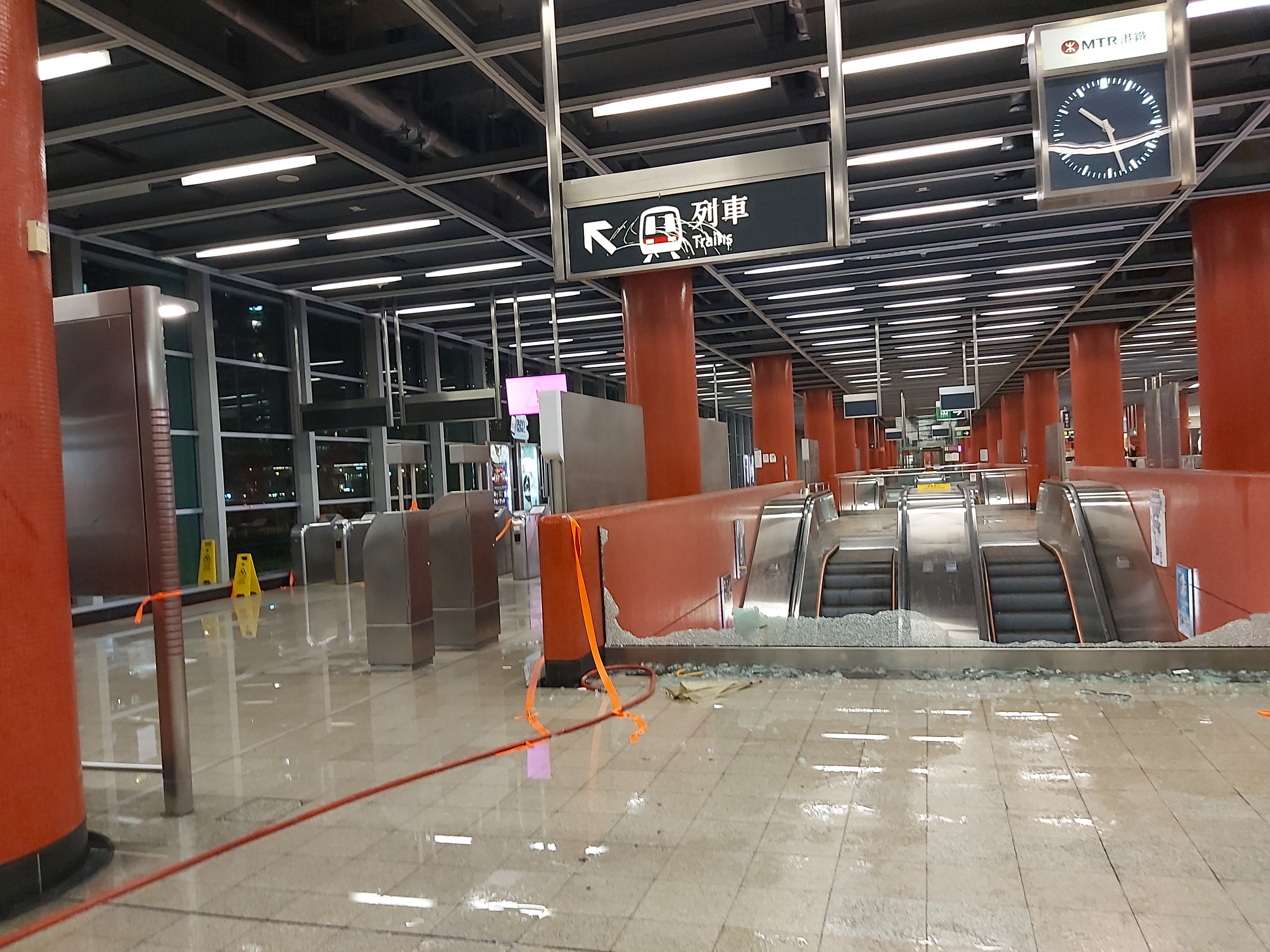 Tseung Kwan O Station in Hong Kong vandalized